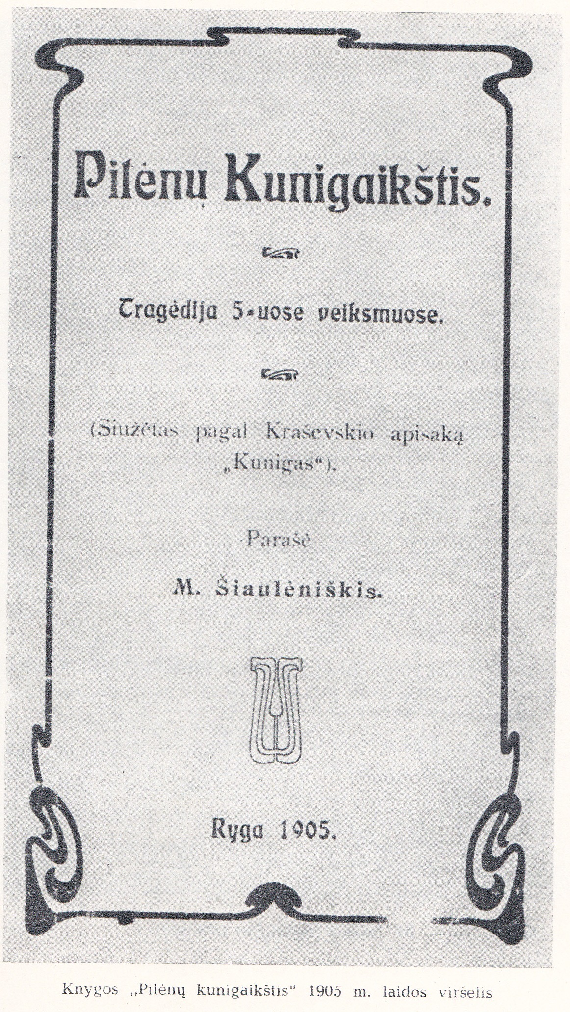 Title Page "Prince of Pullen" by Šikšnys M. (1905)